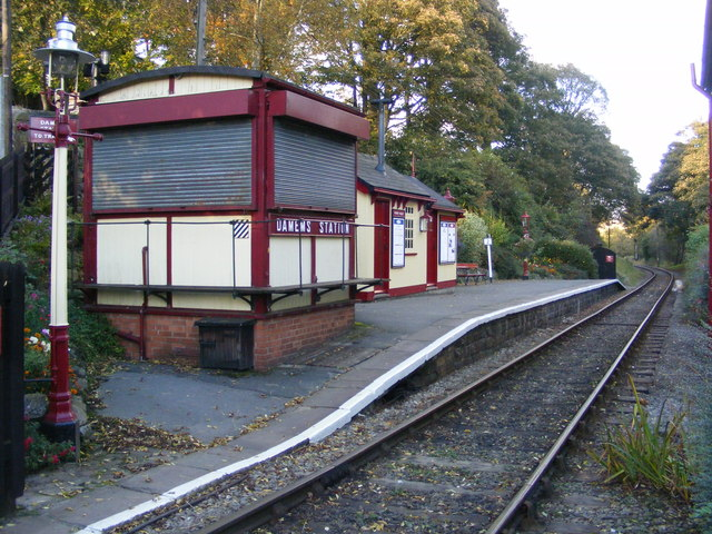 Damems railway station Original description: Damems Station - KWVR Closed for the week in autumn 2007